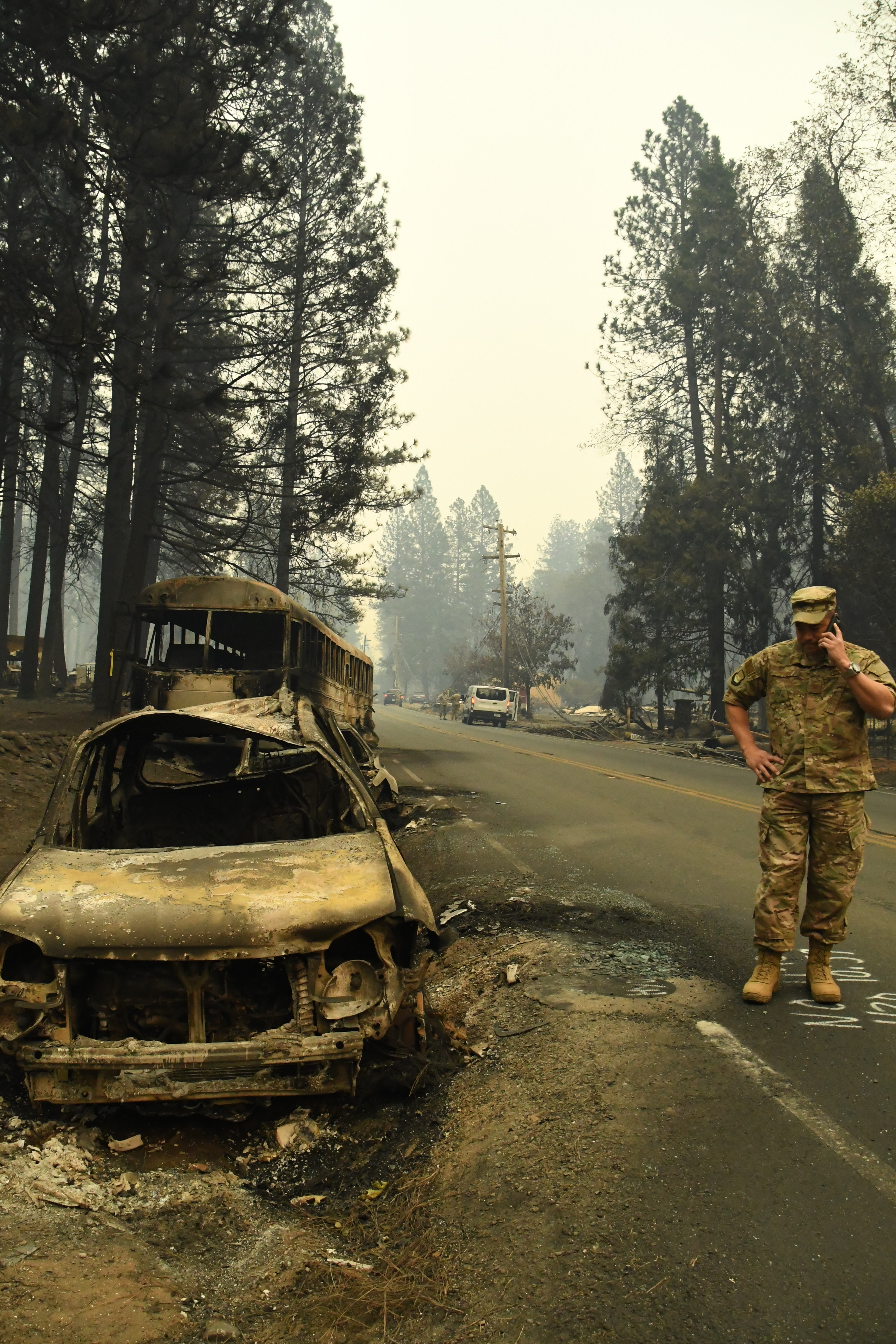 Col. Vic Teel, director of operations for the California Military Department Joint Staff, reports on the devastation in Paradise, California. The Camp Fire burned through most of the town, destroying 7,600 structures since it began Novermber 8. It has scorched 125,000 acres and is currently 30% contained. (Courtesy of the California National Guard)